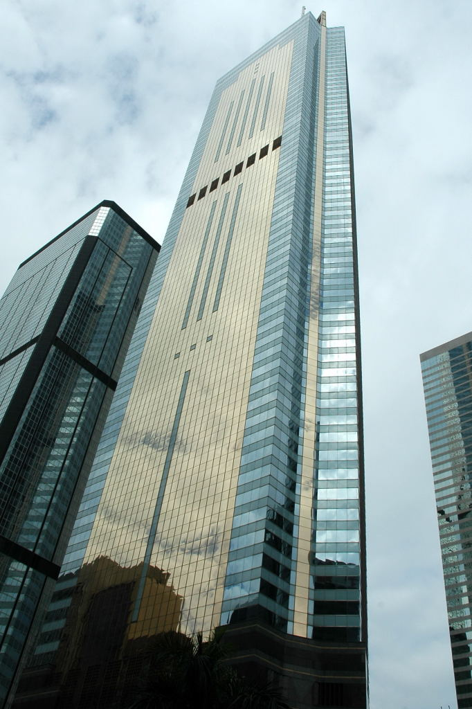 Central Plaza. Central Plaza(中環廣場) at Wan Chai, Hong Kong., Wan Chai.